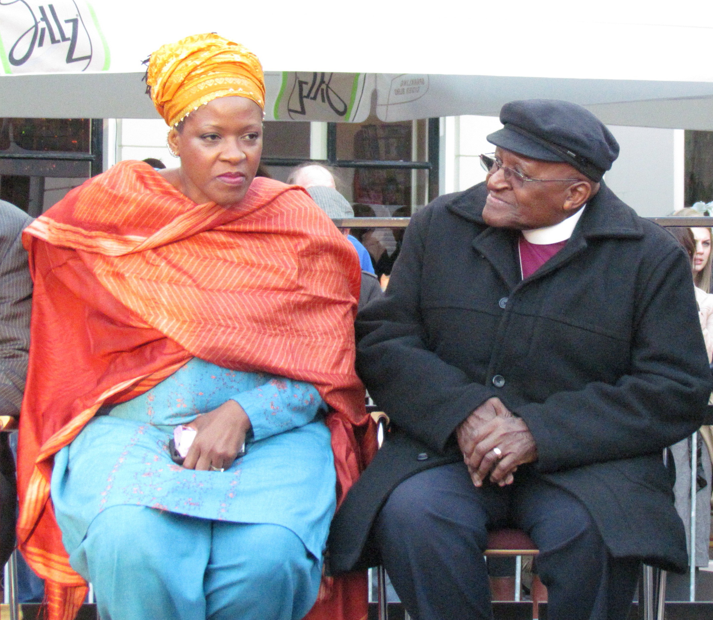 Mpho Andrea Tutu (South African Episcopal priest, daughter of Desmond Tutu) and Desmond Tutu (South African former Archbishop), at the event Desmond Tutu meets Albert Schweitzer in Deventer, the Netherlands